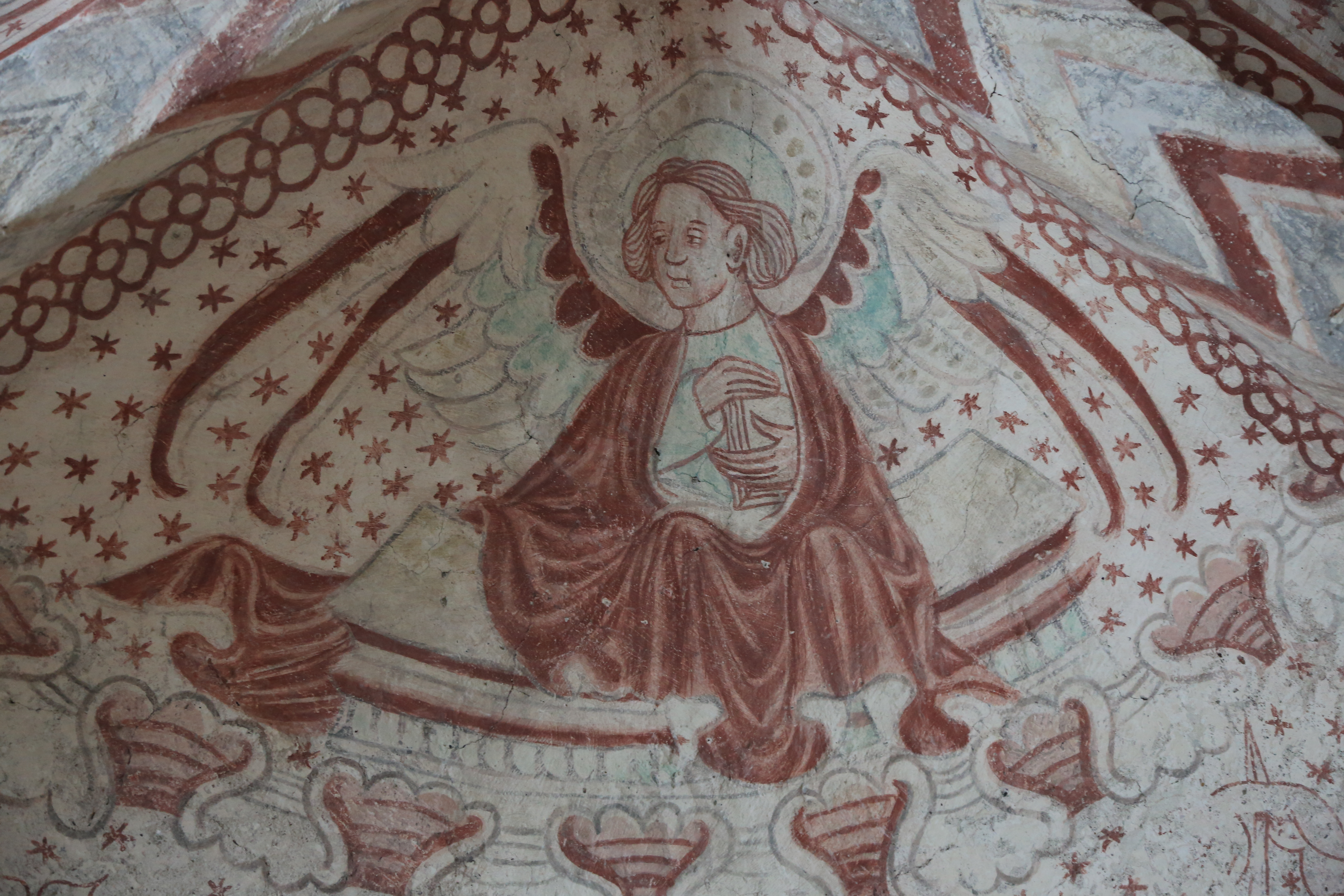 Fresco in Kvislemark church, Næstved, Denmark. The frescos in the church were rediscovered in 1923 and are probably by the "Kongstedmesteren" and are from 1425-50